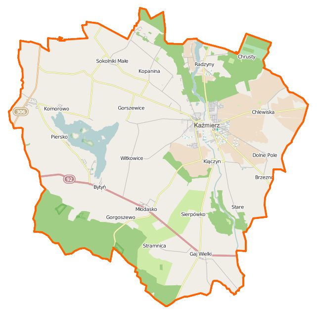 Map of Gmina Kaźmierz, Poland This map of Kaźmierz (gmina) was created from OpenStreetMap project data, collected by the community. This map may be incomplete, and may contain errors. Don't rely solely on it for navigation. Border coordinates52.565516.4393←↕→16.659352.4327